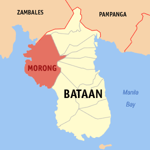 Map of Bataan showing the location of Morong